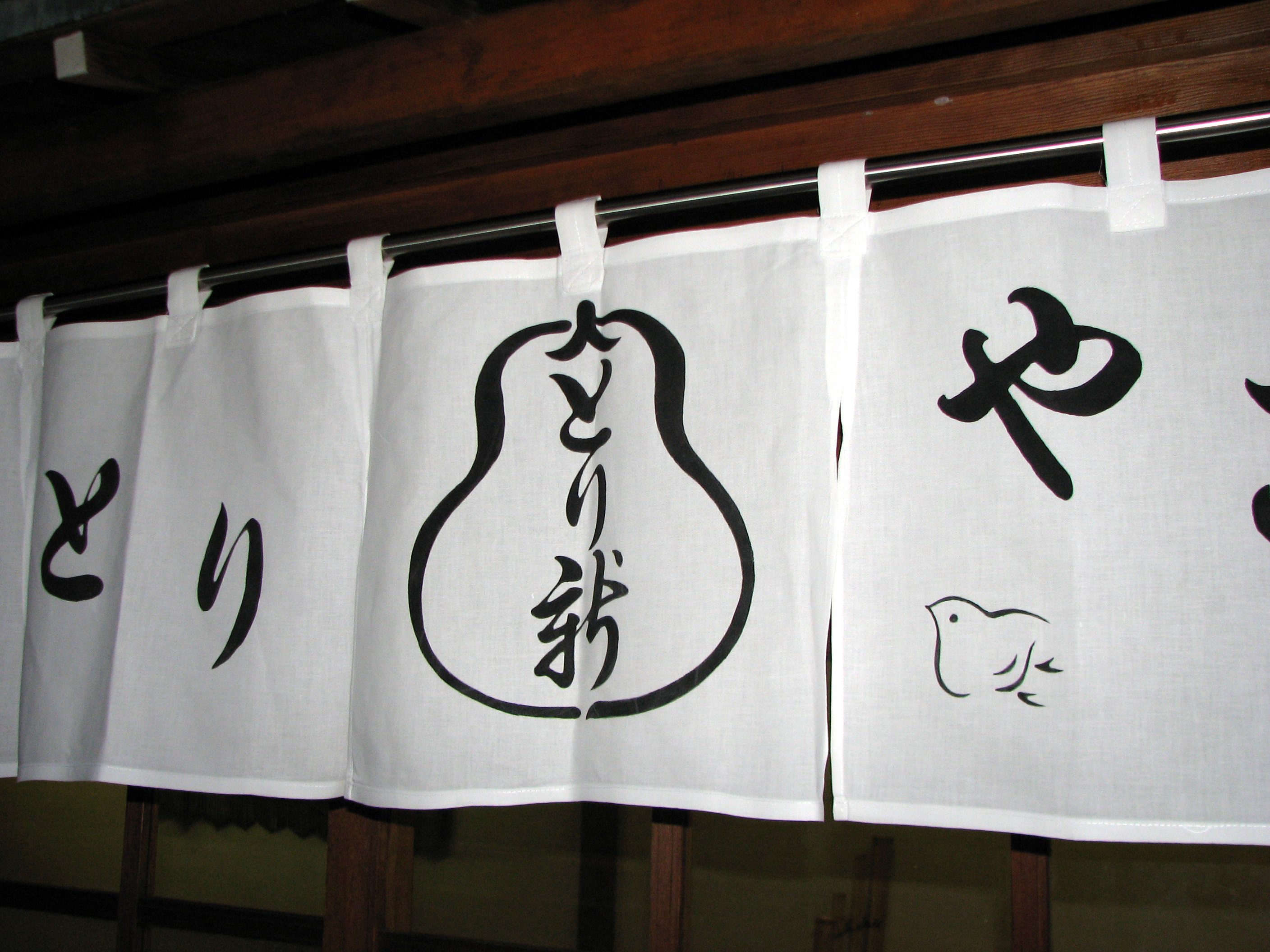 The noren of a shop in GionPear-shaped